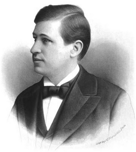 Monroe H. Kulp (Pennsylvania Congressman)